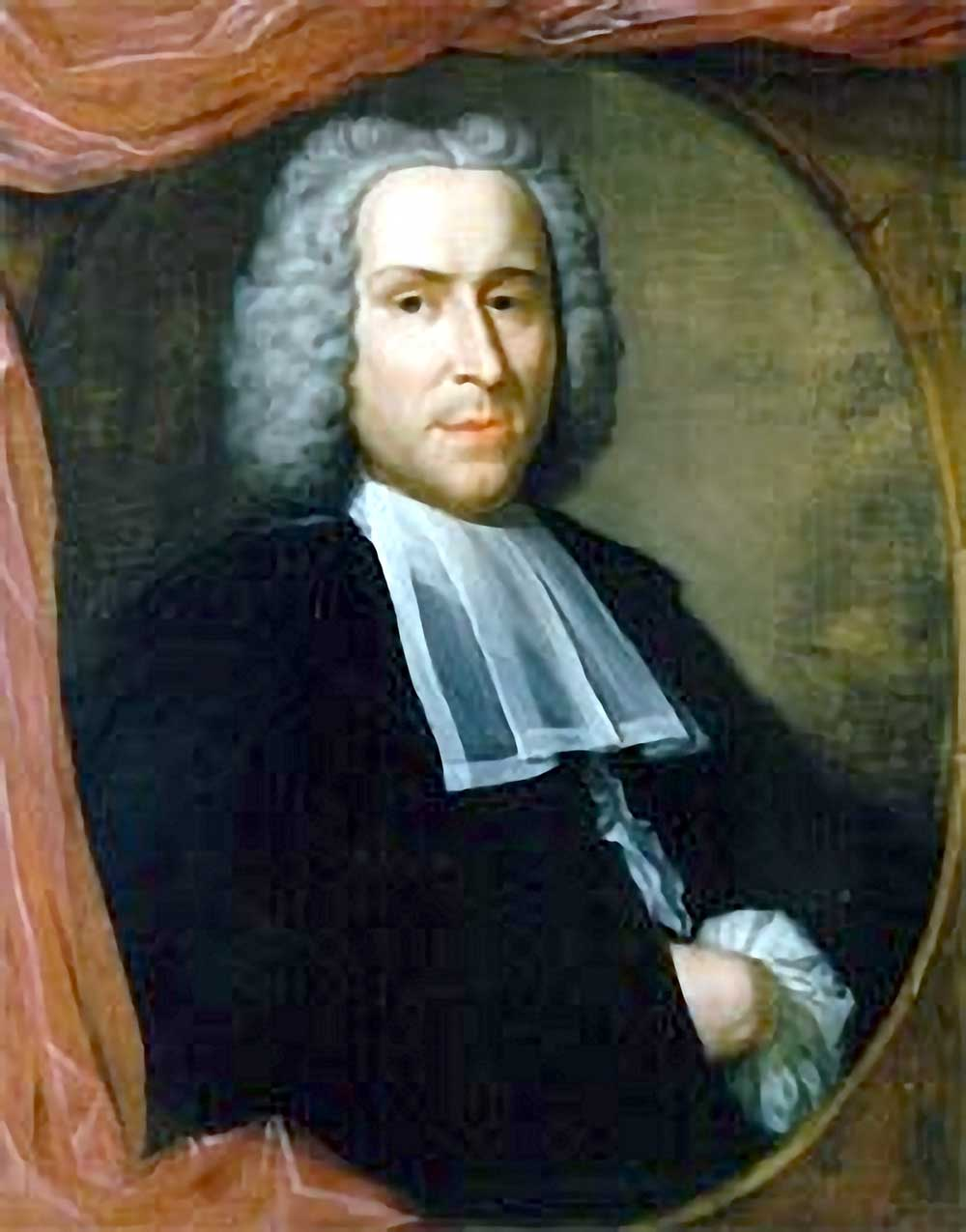 Hieronymus David Gaub (1705-1780) German physician and chemist